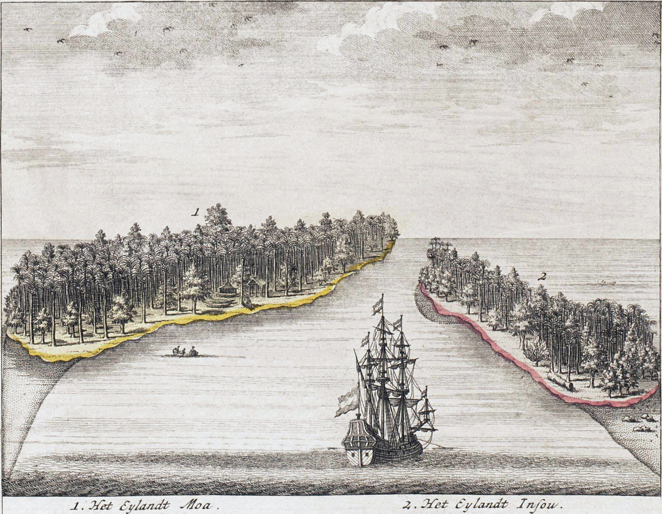 A modified image after a print from the Atlas van Van Keulen